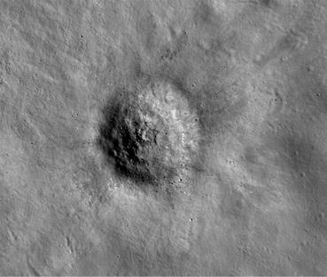 LROC NAC image - M104740941LE.